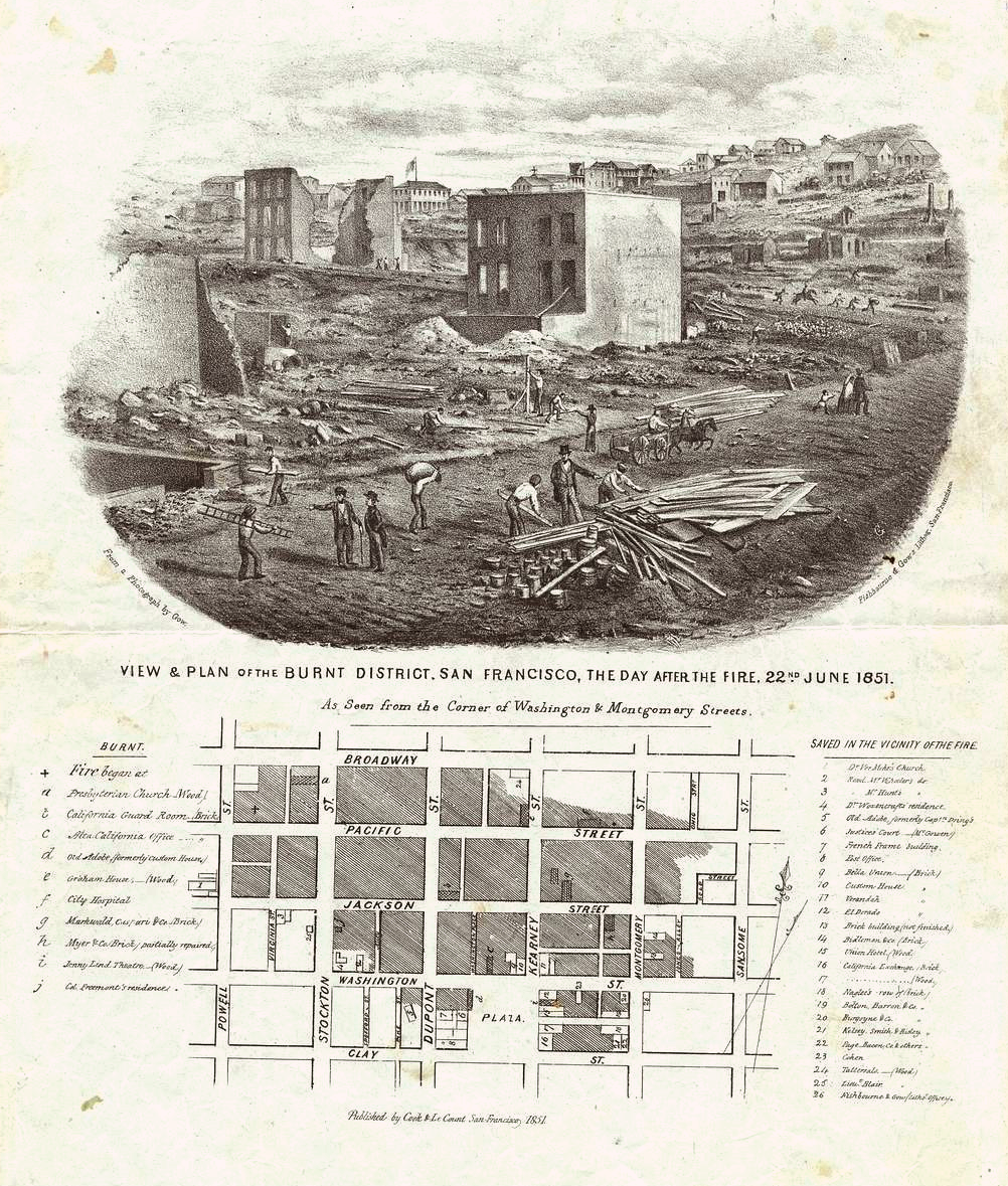 View and plan of burnt district, San Francisco [California], the day after the fire, 22nd June, 1851